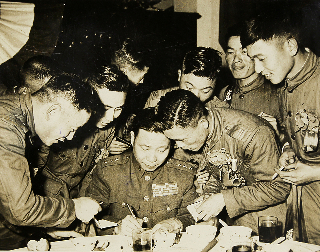 Peng Mengji with other military officers surrounded,circa 1950s.